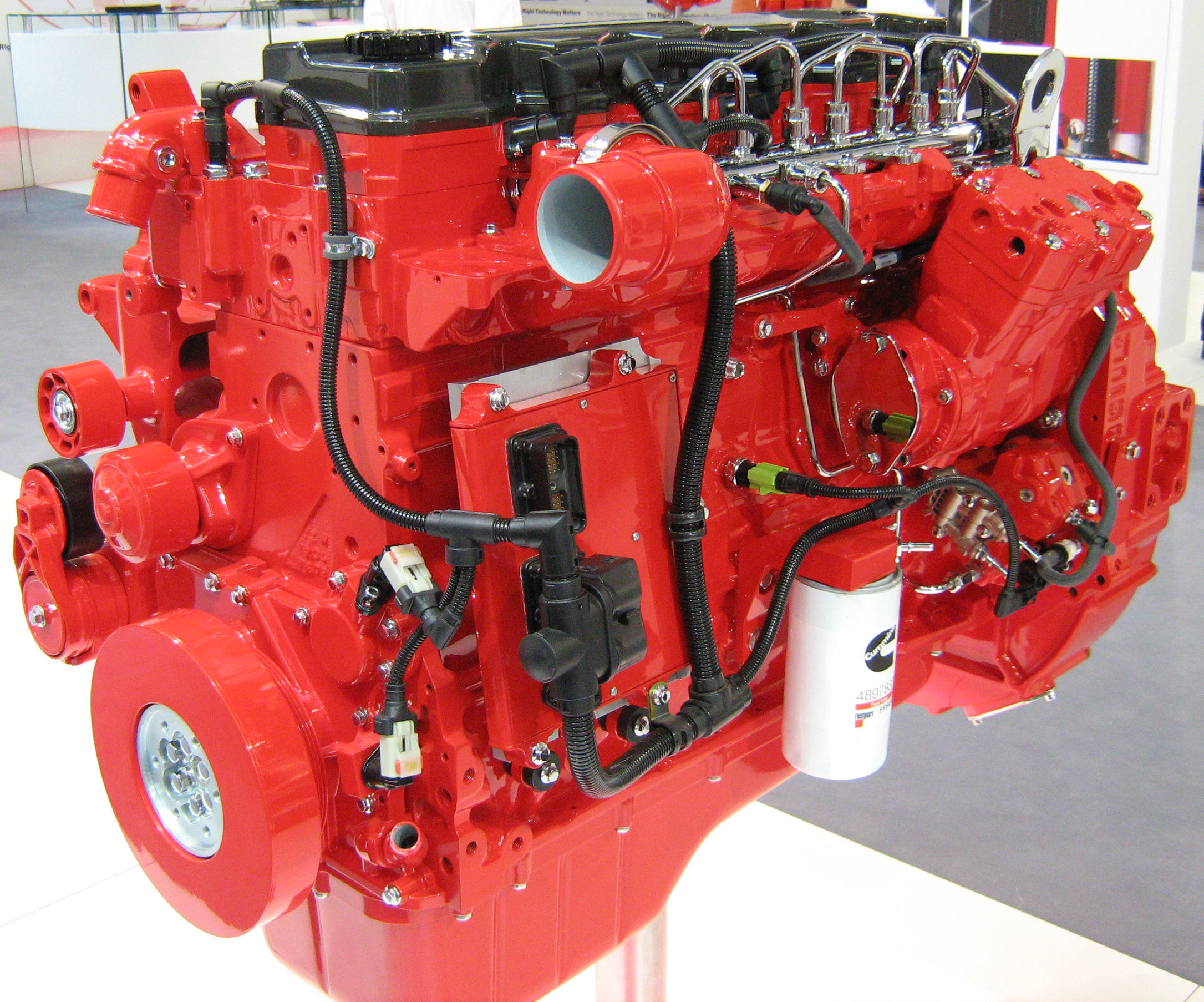 Cummins ISB series medium duty diesel engine (6,7 L, 6 cylinder, VGT turbocharger, EGR and Common rail fuel injection)